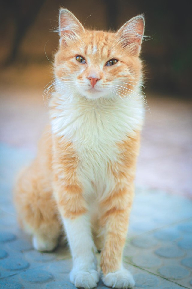 Arabian Mau